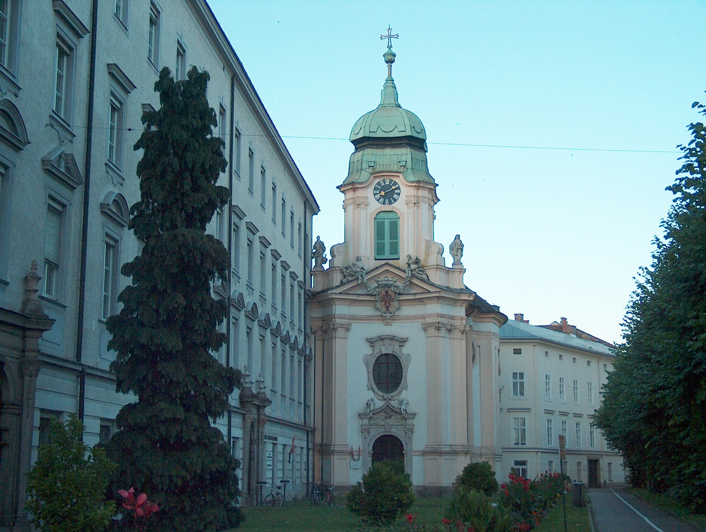 Priesterseminarkirche in Linz, Austria